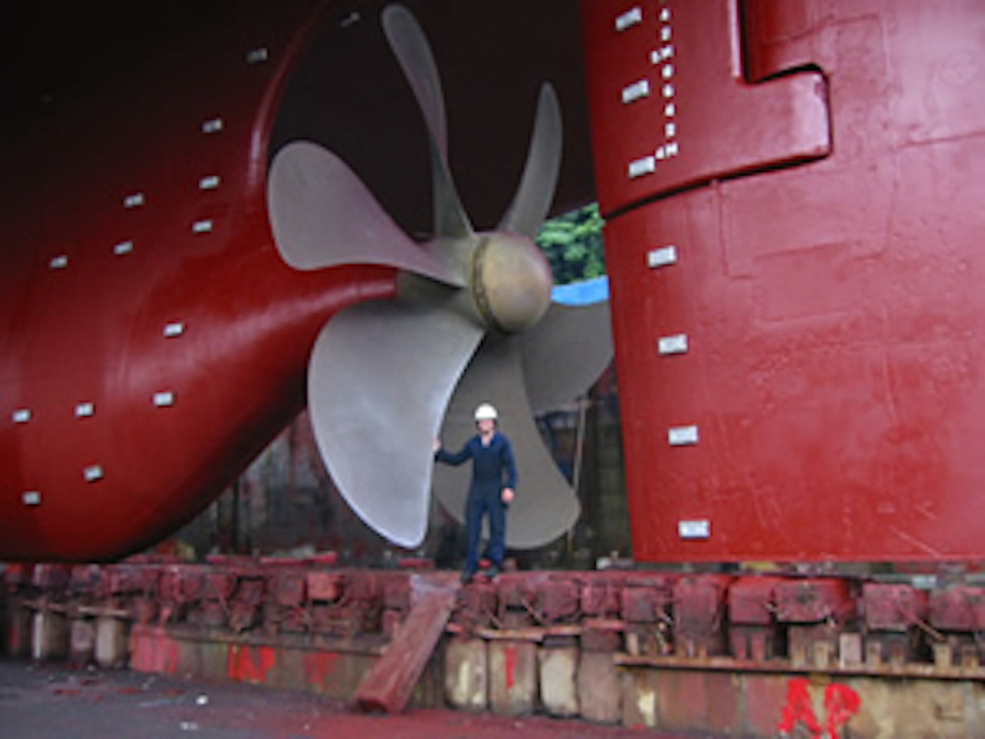 A large 6-bladed R-H ship's propeller